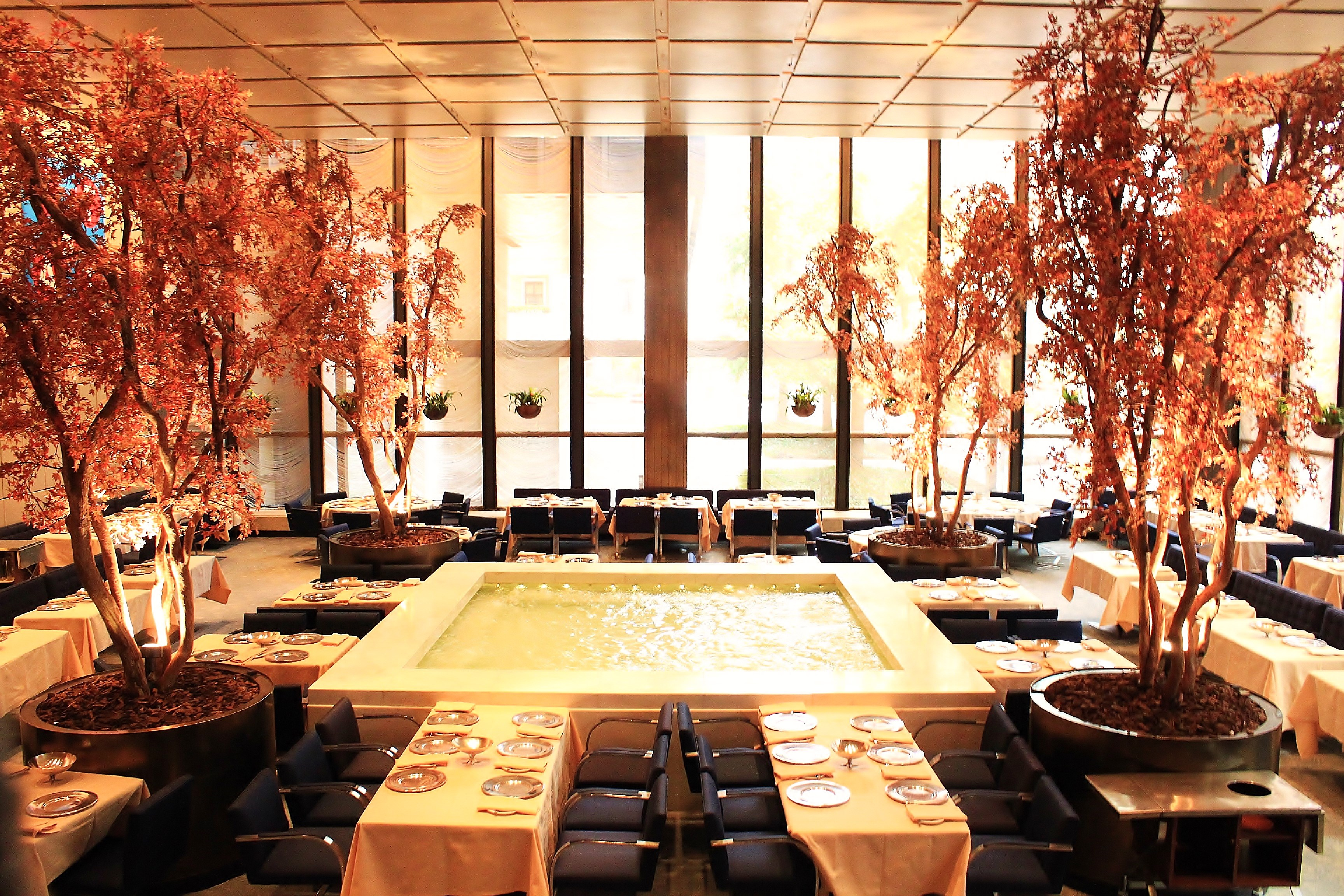 Four Seasons Restaurant: Pool Room interiors